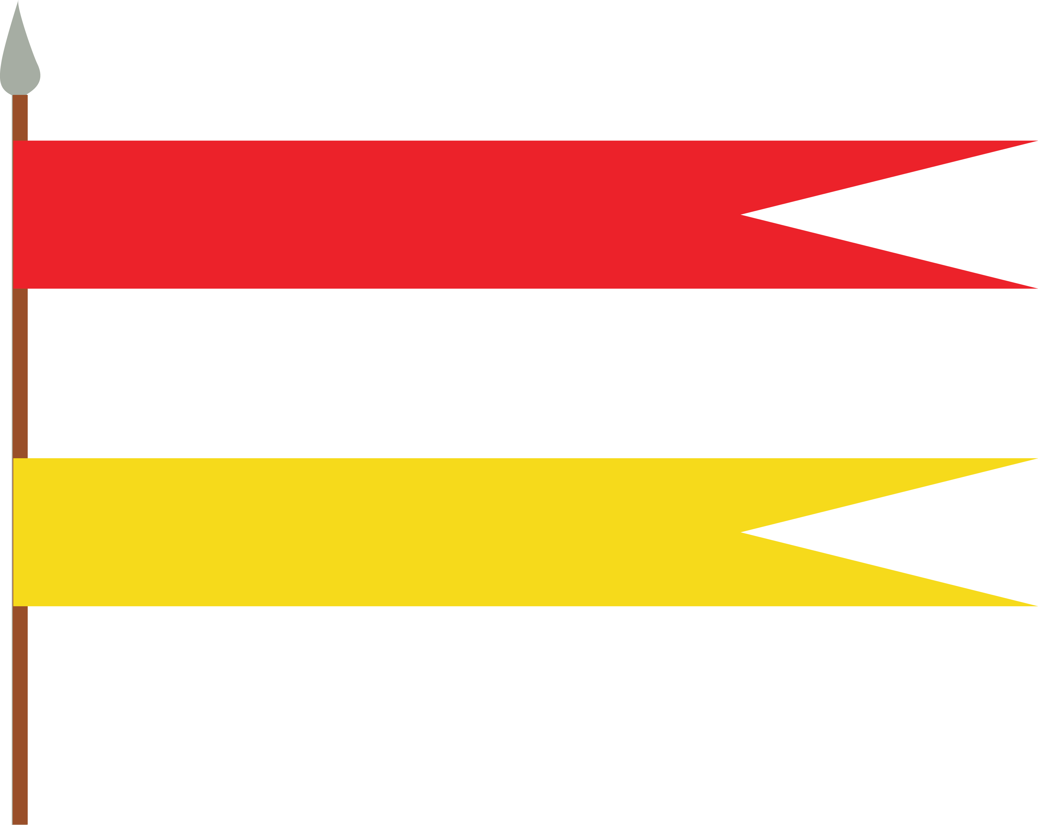 Based on David Nicolle "Armies of the Muslim Conquest" illustrations by Angus McBride. And Martin Hinds "The Banners and Battle Cries of the Arabs at Siffin" Al-Abhath XXIV